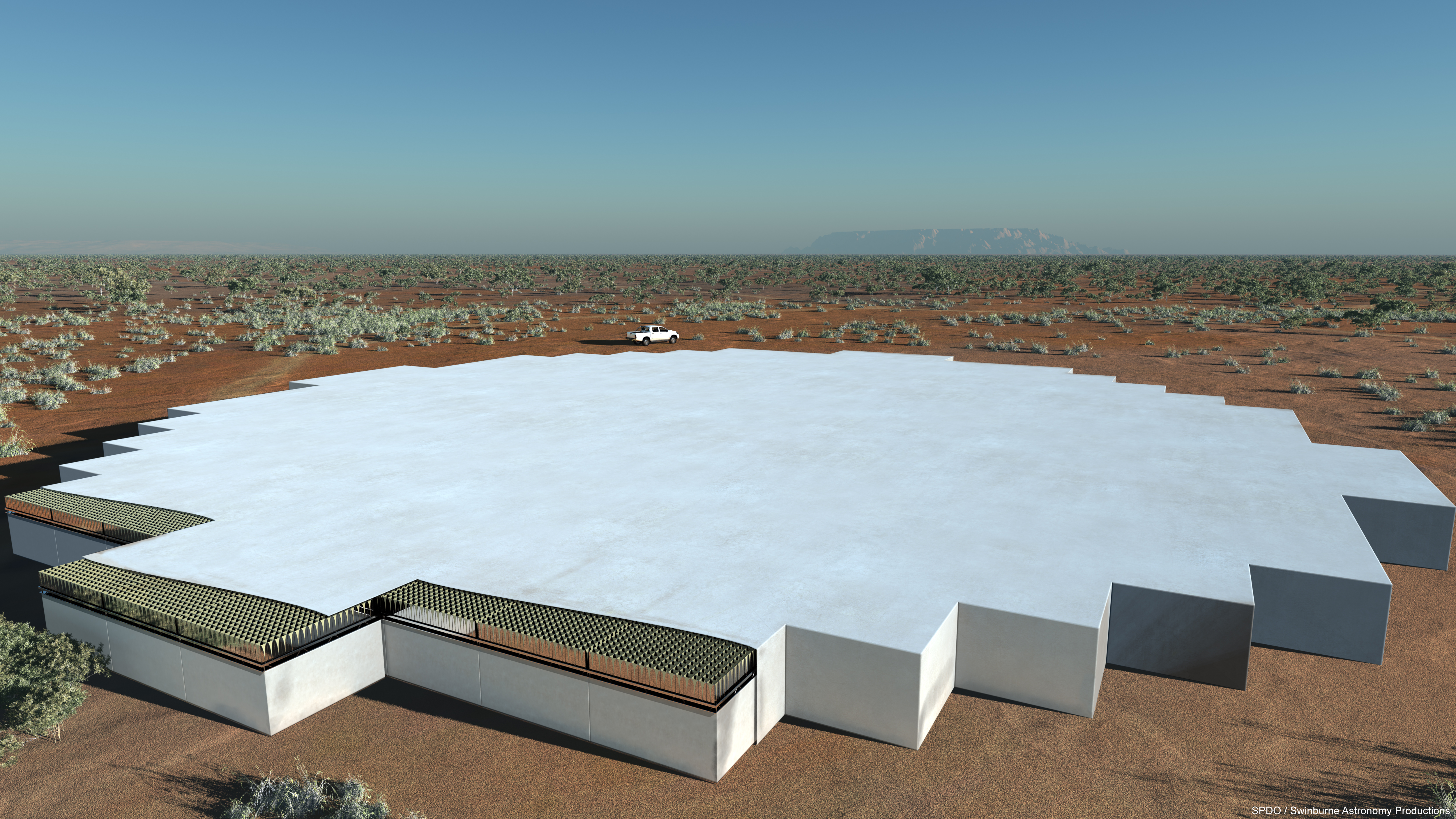 Artist's impression of one of the 60m diameter Dense Aperture Arrays.